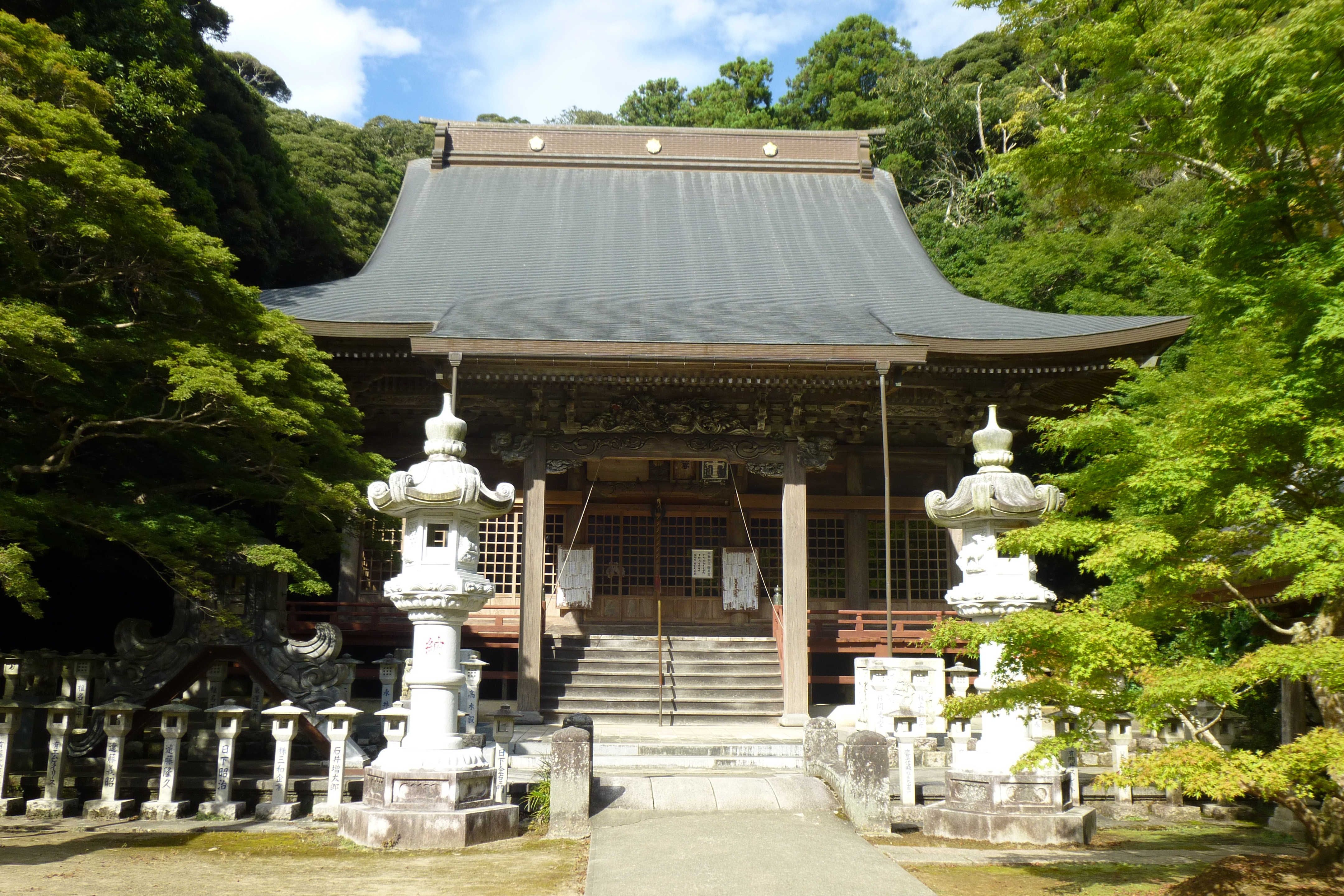 Ryufukuji (memories of that summer)